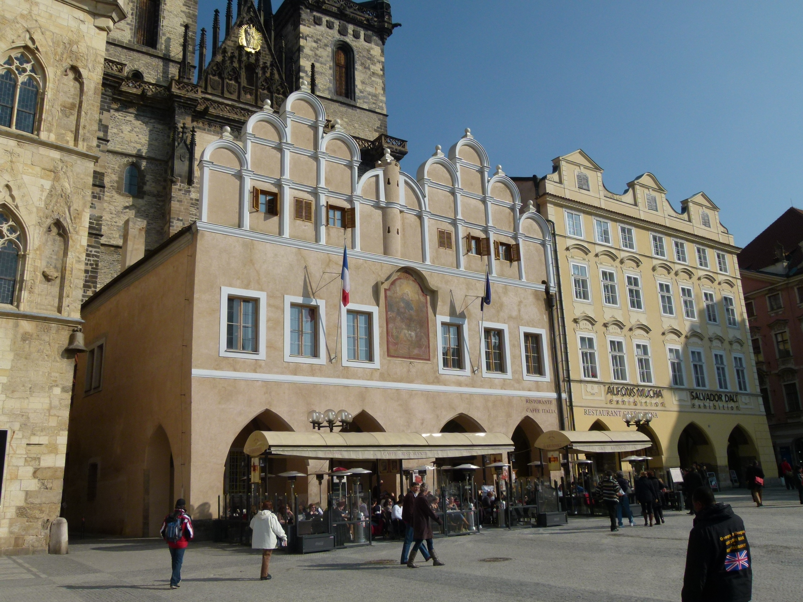 Týn School, Prague